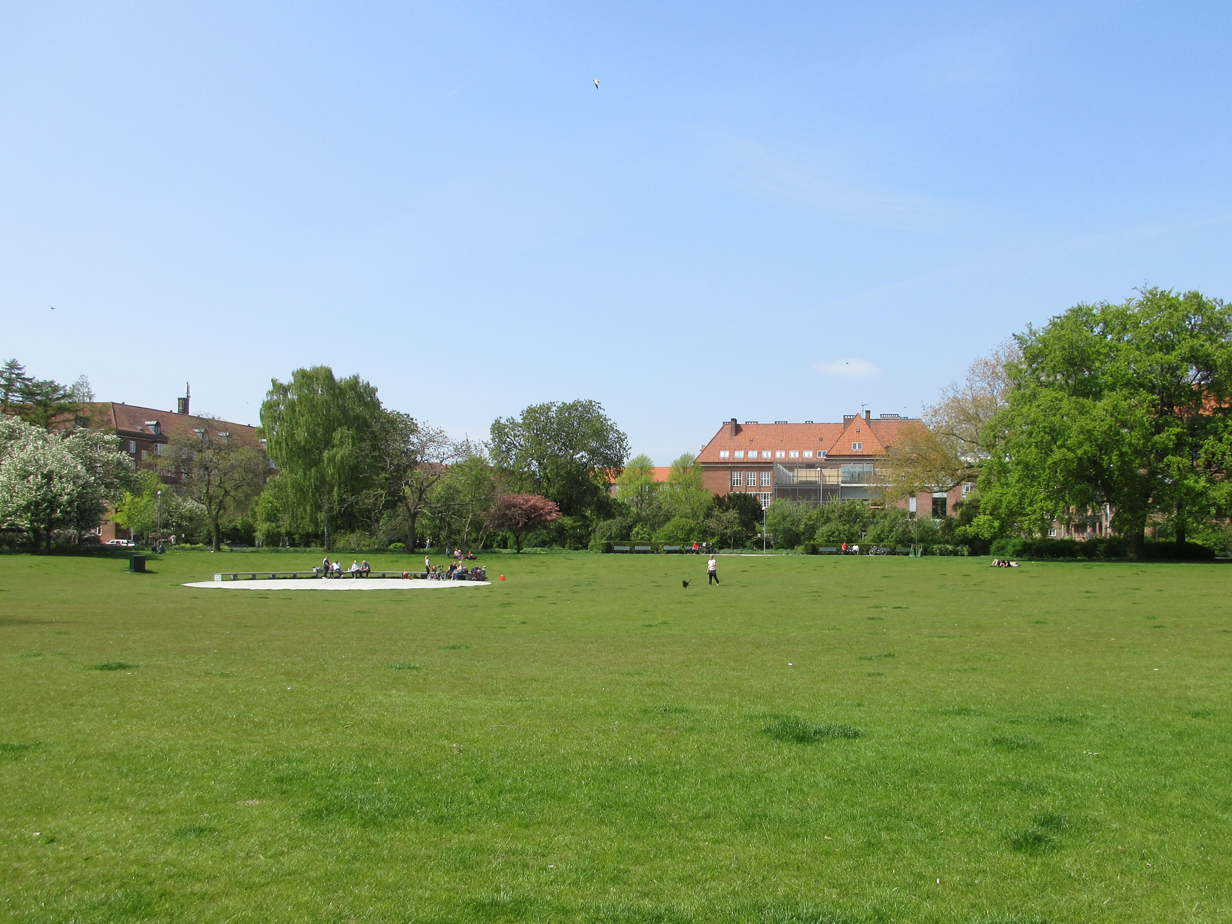 Lindevangsparken in Frrederiksberg, Denmark